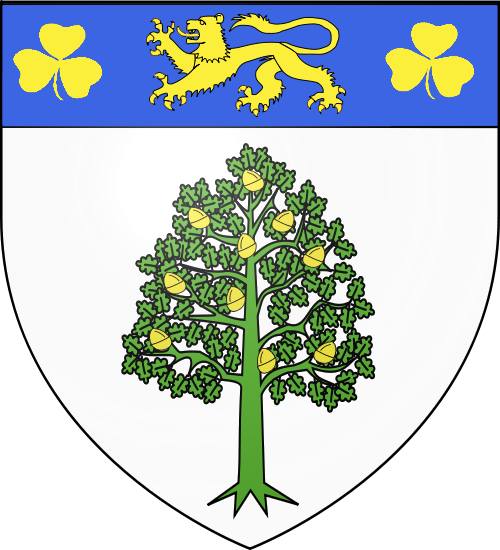 Coat of arms of the Dowling.